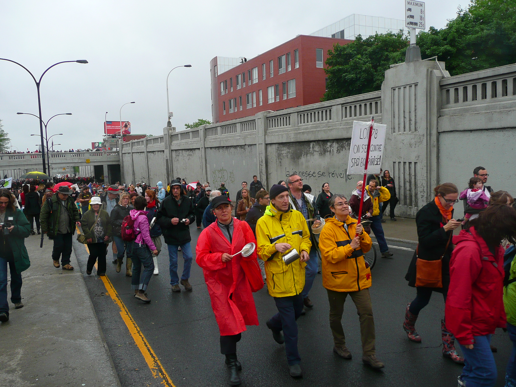 Montreal citizens took to the streets with their pots and pans on Saturday, June 2, 2012 to protest the Charest government's Bill 78, the Charest government, and tuition hikes. Thousands of Montrealers of all ages braved the rain for several hours to participate in the festive march from Parc Jeanne-Mance at avenue du Parc and Mont-Royal to Parc Molson at Beaubien and Iberville.